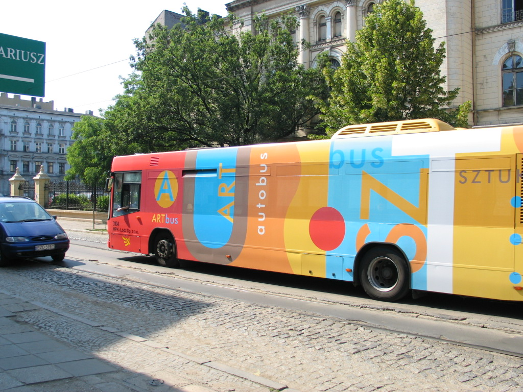 Volvo 7000 city bus in Łódź, Poland. MPK Łódź operator.